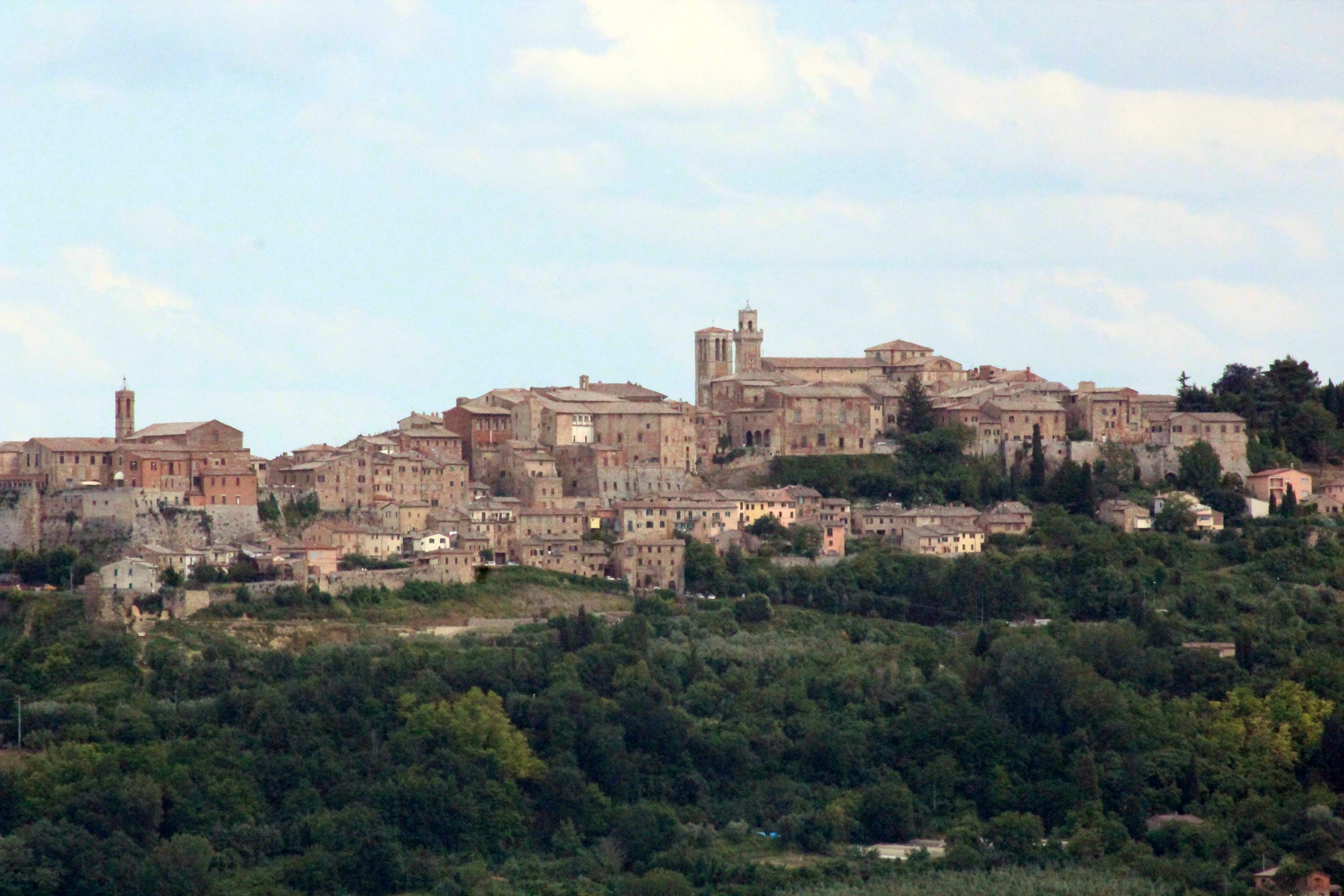 Panorama of Montepulciano, Valdichiana, Province of Siena, Tuscany, Italy